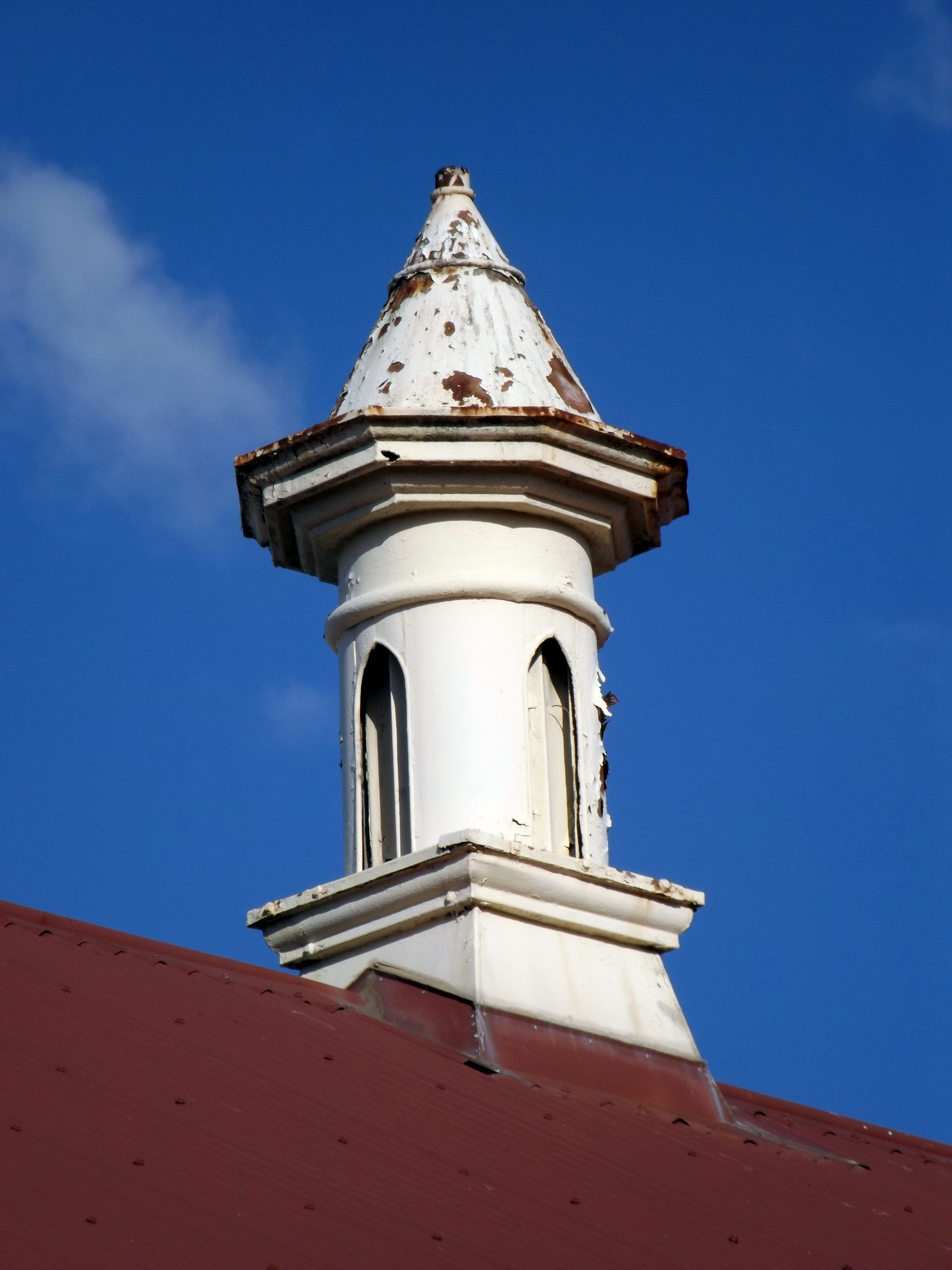 Photo of a roof ornament on the Holy Cross Laundry at Wooloowin, Brisbane, Queensland, Australia.